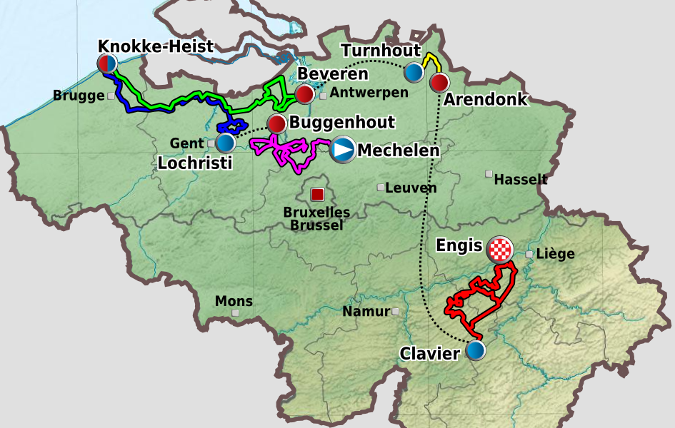 Route of Tour of Belgium 2012